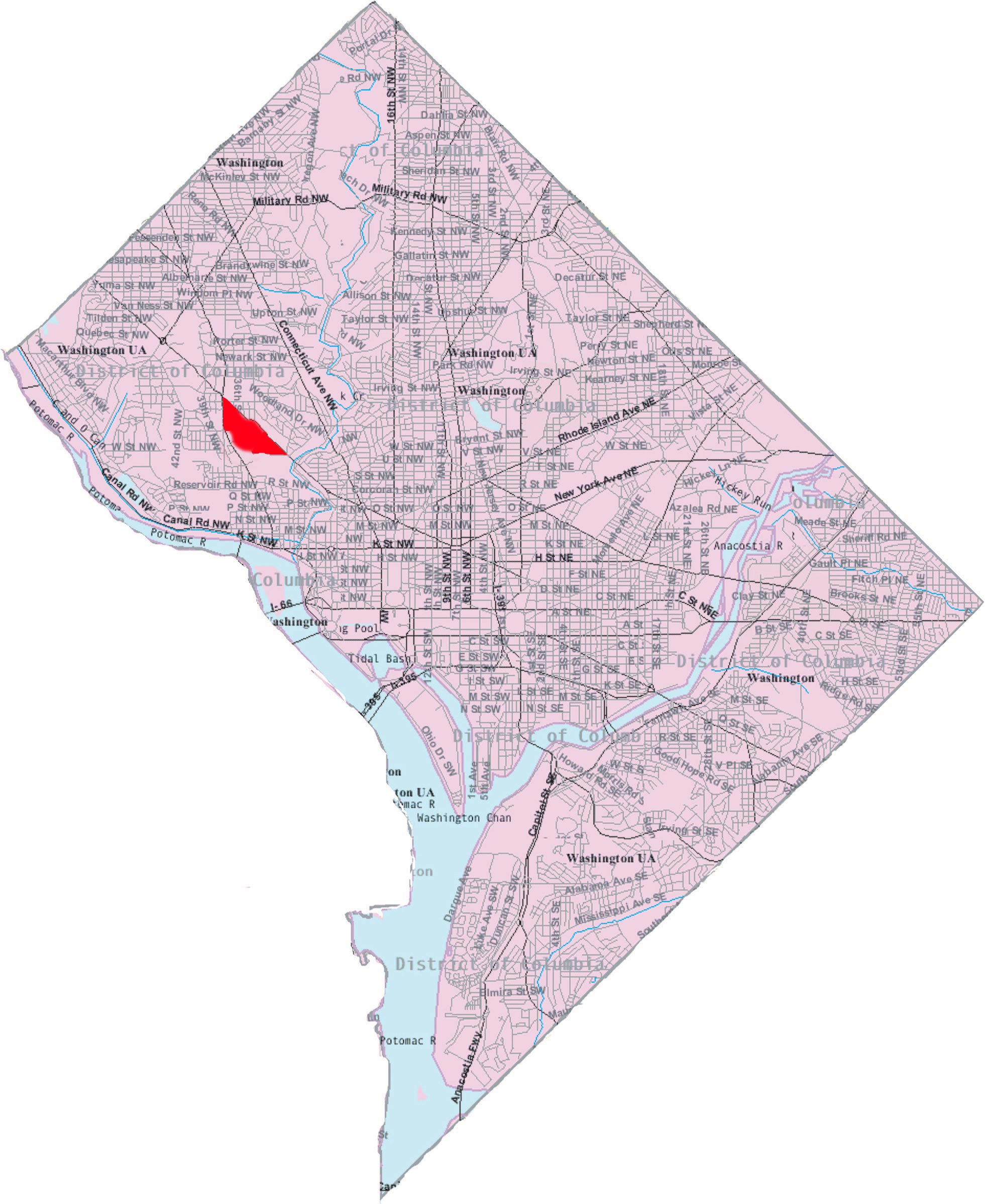 This image is a modified version of a self-generated reference map from the U.S. Census Bureau's American Factfinder at by Wikipedia user Msclguru.